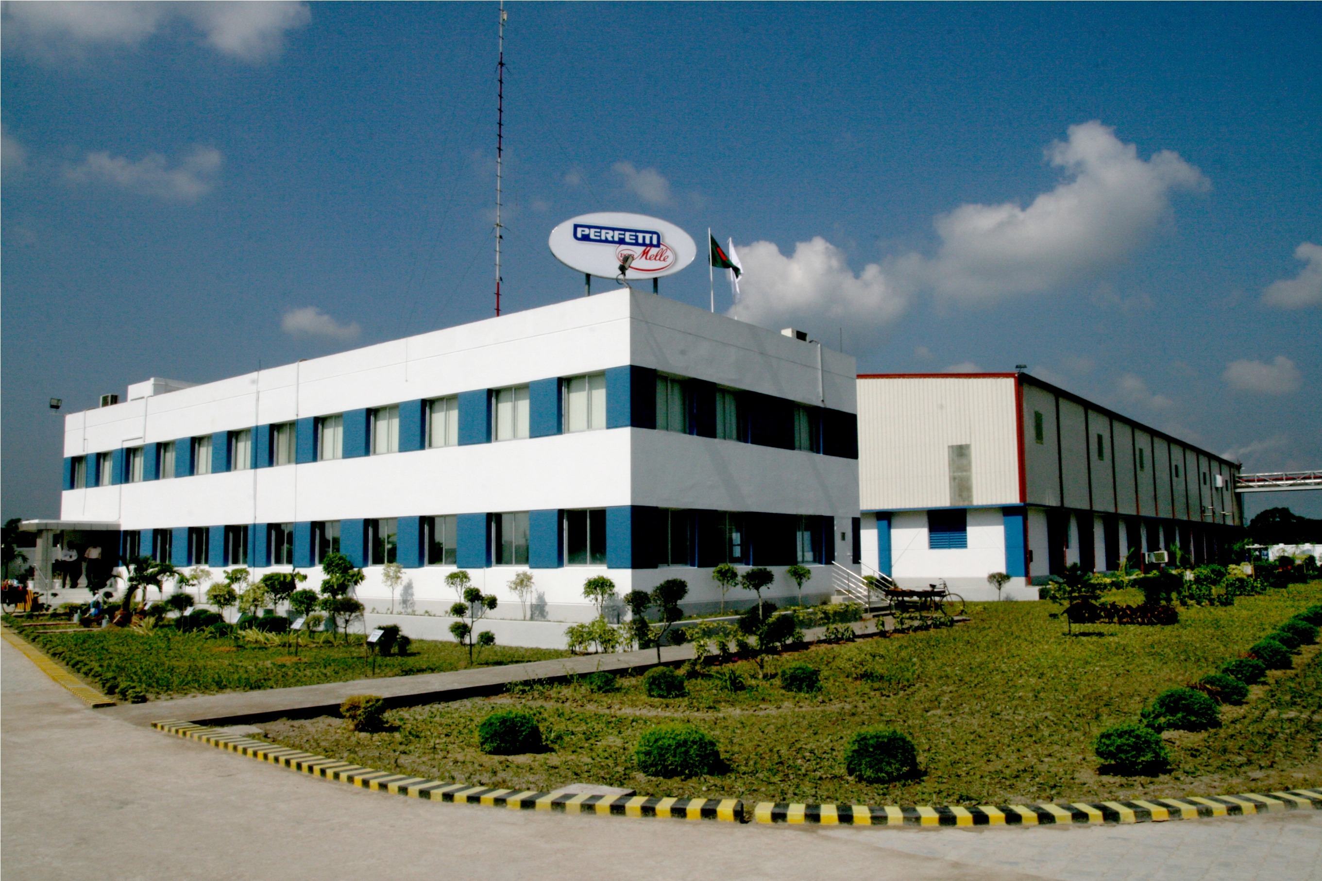 Perfetti Van Melle Bangladesh factory